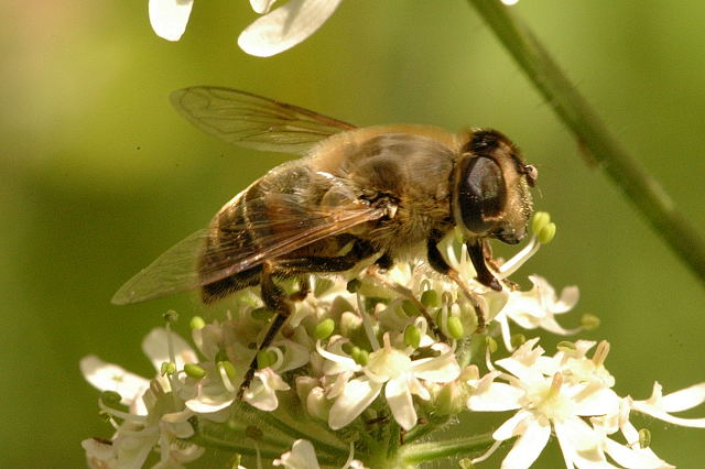 Picture taken in Commanster, Belgian High Ardennes . Species: female Eristalis interrupta